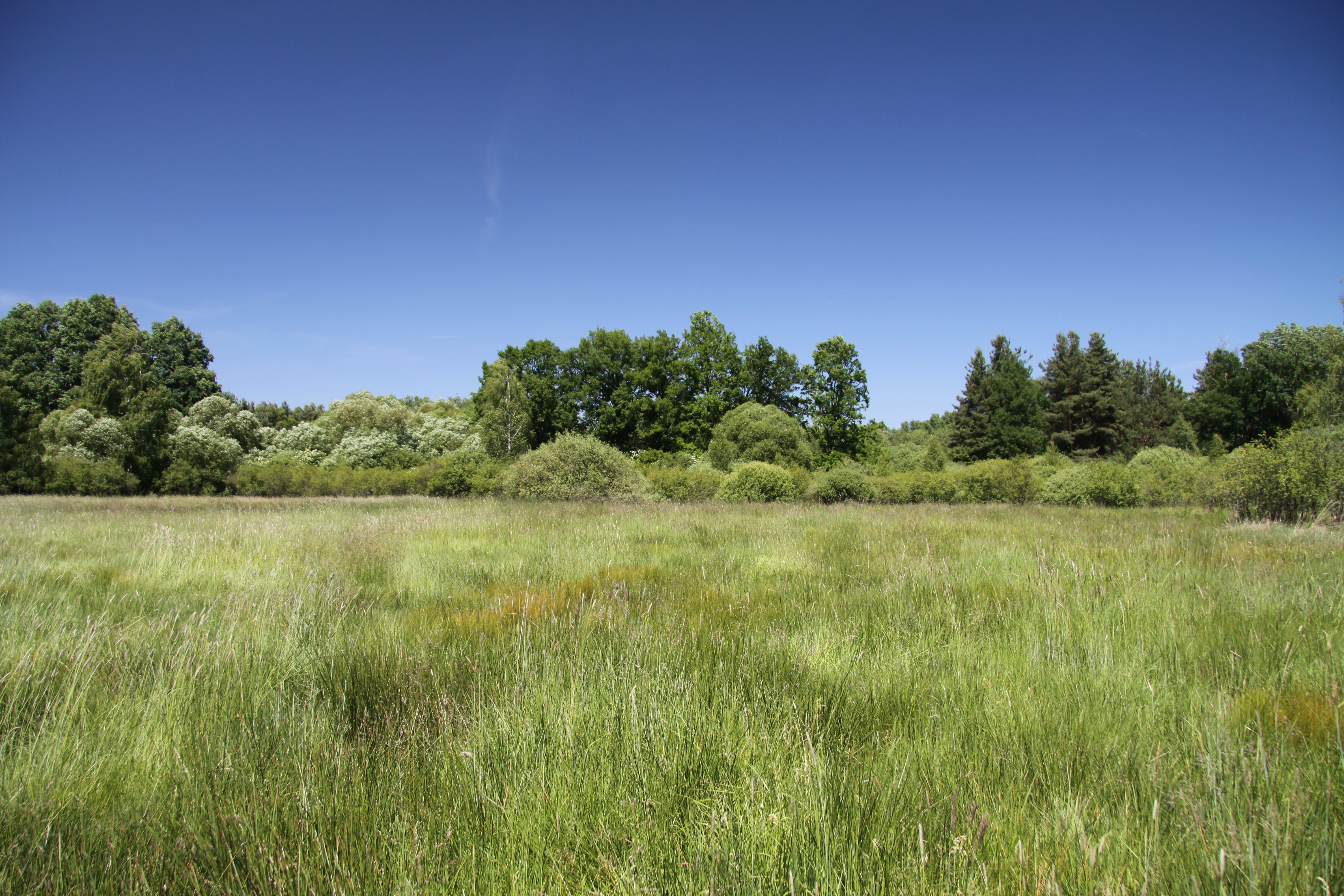 Natural monument Lhota u Dynína near Lhota u Dynína, České Budějovice District, Czech Republic - Google Maps - Google Earth